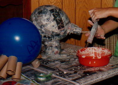 A Papier-mâché project in progress.